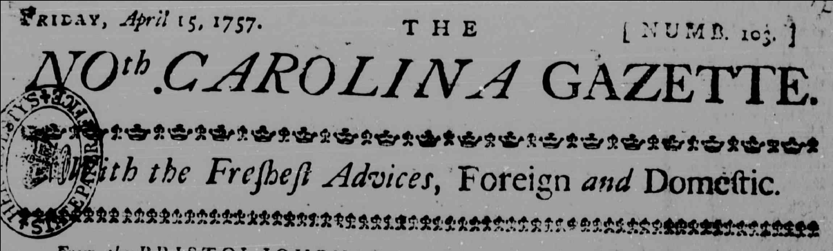 Heading of the North-Carolina Gazette (styled Noth. Carolina Gazette) for April 15, 1757, Number 103.